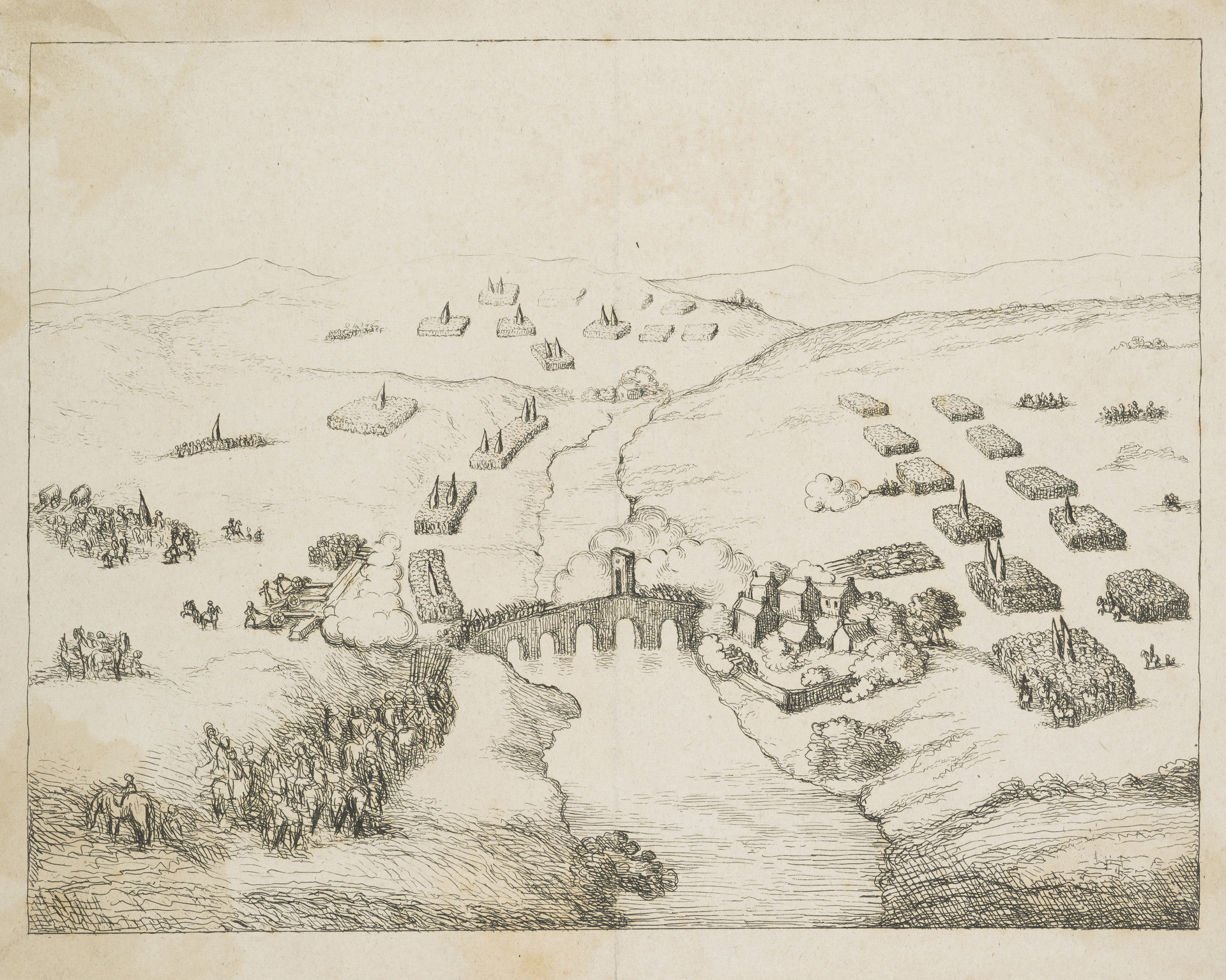 Unknown Battle of Bothwell Bridge